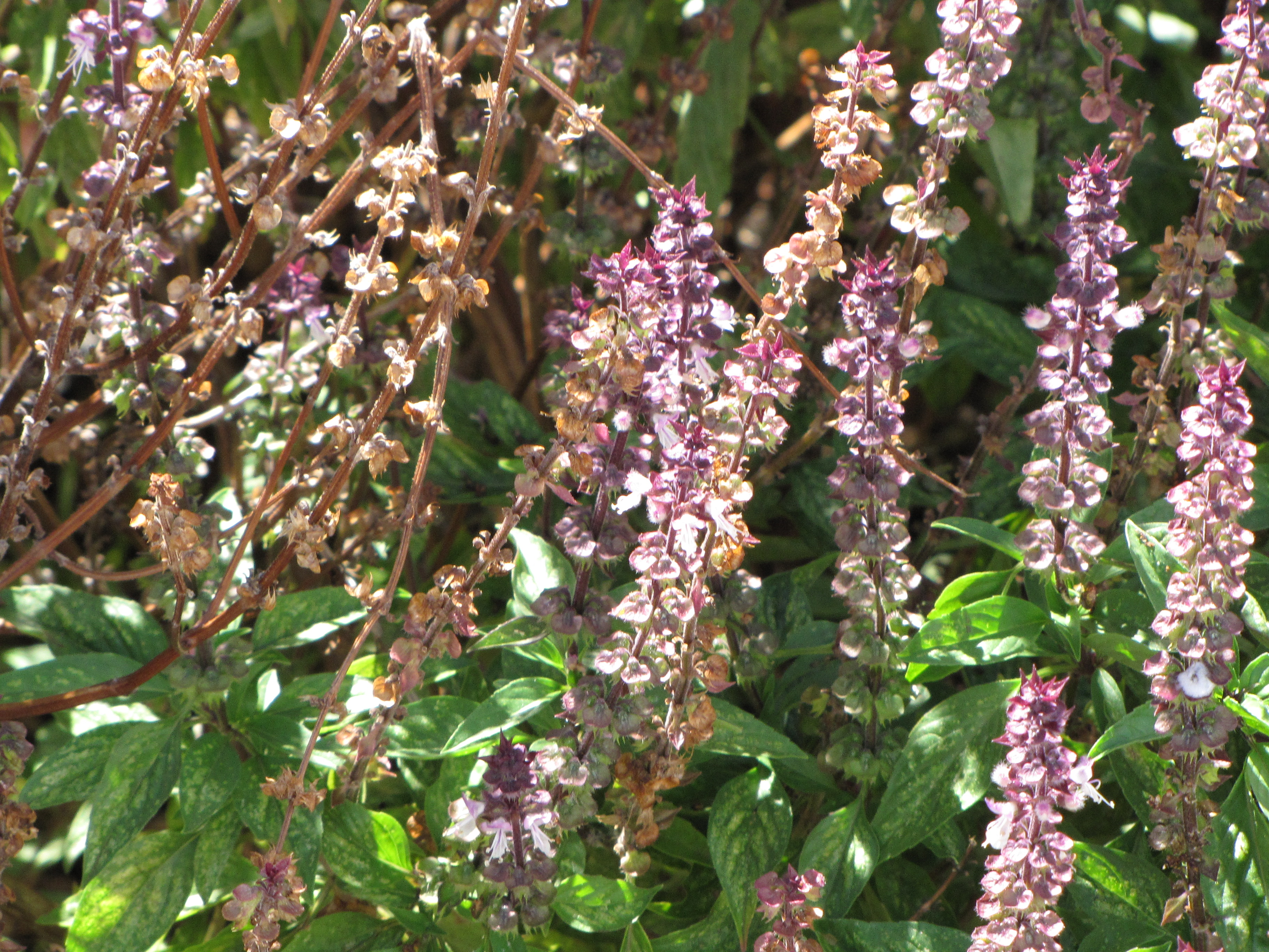 Ocimum basilicum var. thyrsiflorum (Thai basil, ornamental basil) Flowers at Wailuku Heights, Maui, Hawaii. July 21, 2009 #090721-3216 Image Use Policy